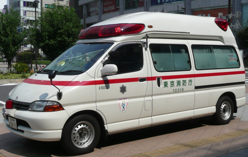 Toyota Himedic.